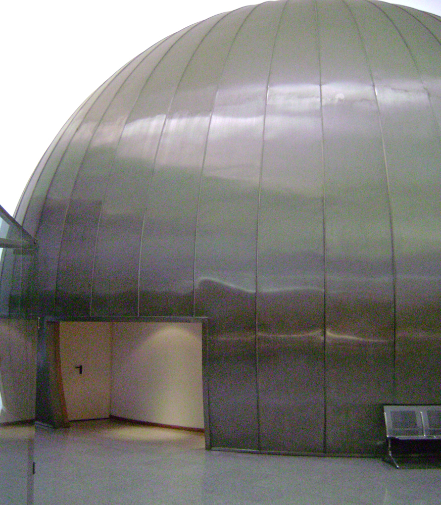 A view from outside of the Espinho planetarium dome